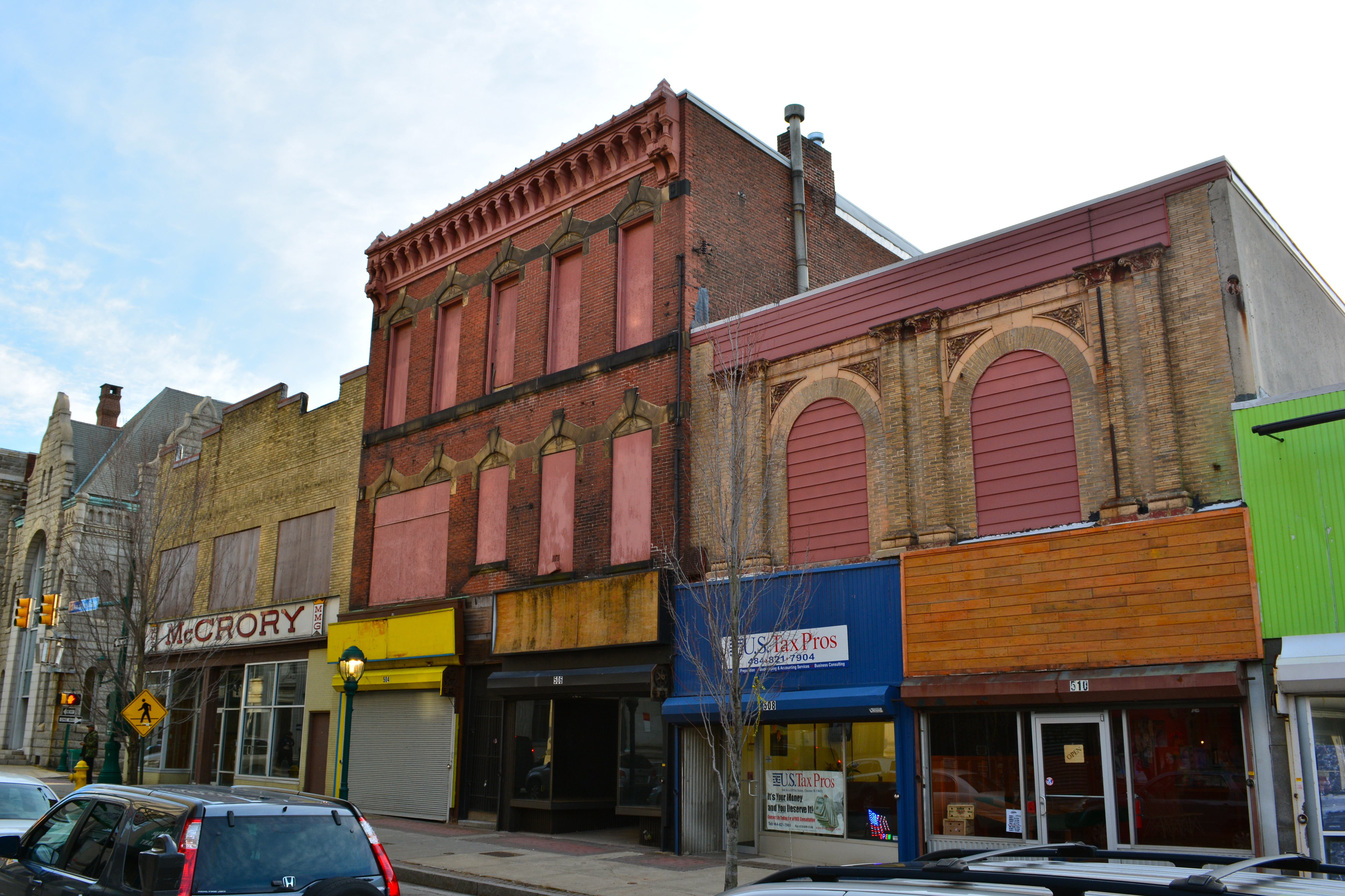 In downtown Chester, Pennsylvania, empty buildings numbered 502-510 Avenue of the States